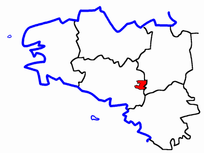 Description: Map for localisazion of cantons of Bretagne region in France Source: made by Hervé Tigier in april 2005 from another large map (published in 1990)